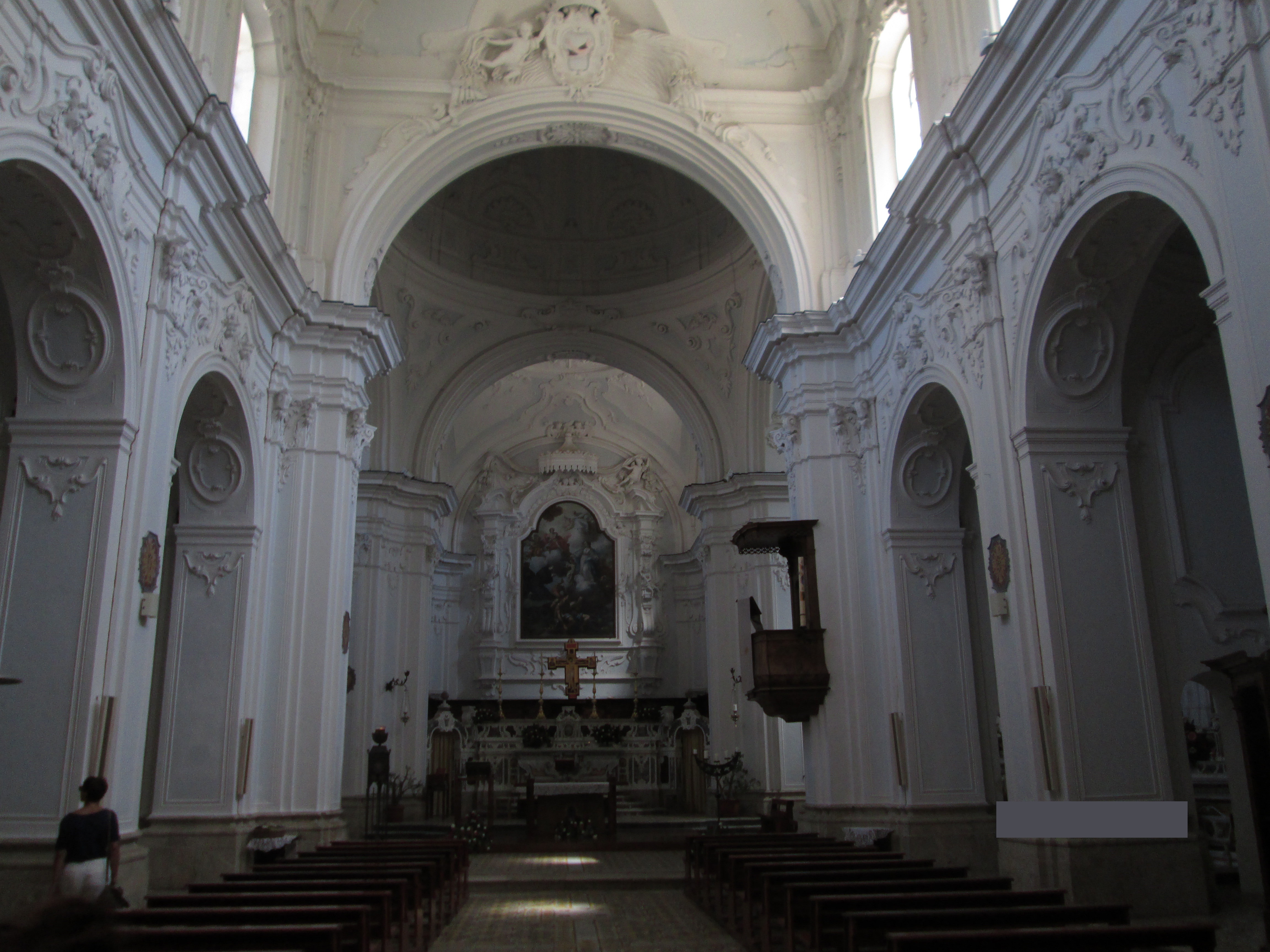 San Francesco a Folloni Church (Montella), Interior